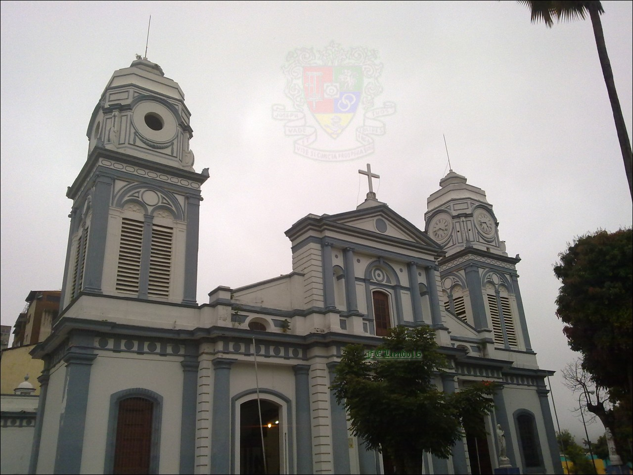 Church of Saint Joseph Parish in Caracas, Venezuela.